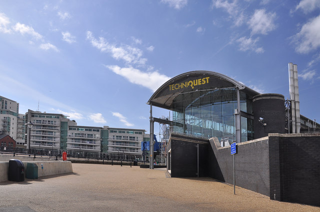 Techniquest - Cardiff Bay A hands on engineering experience for young people.